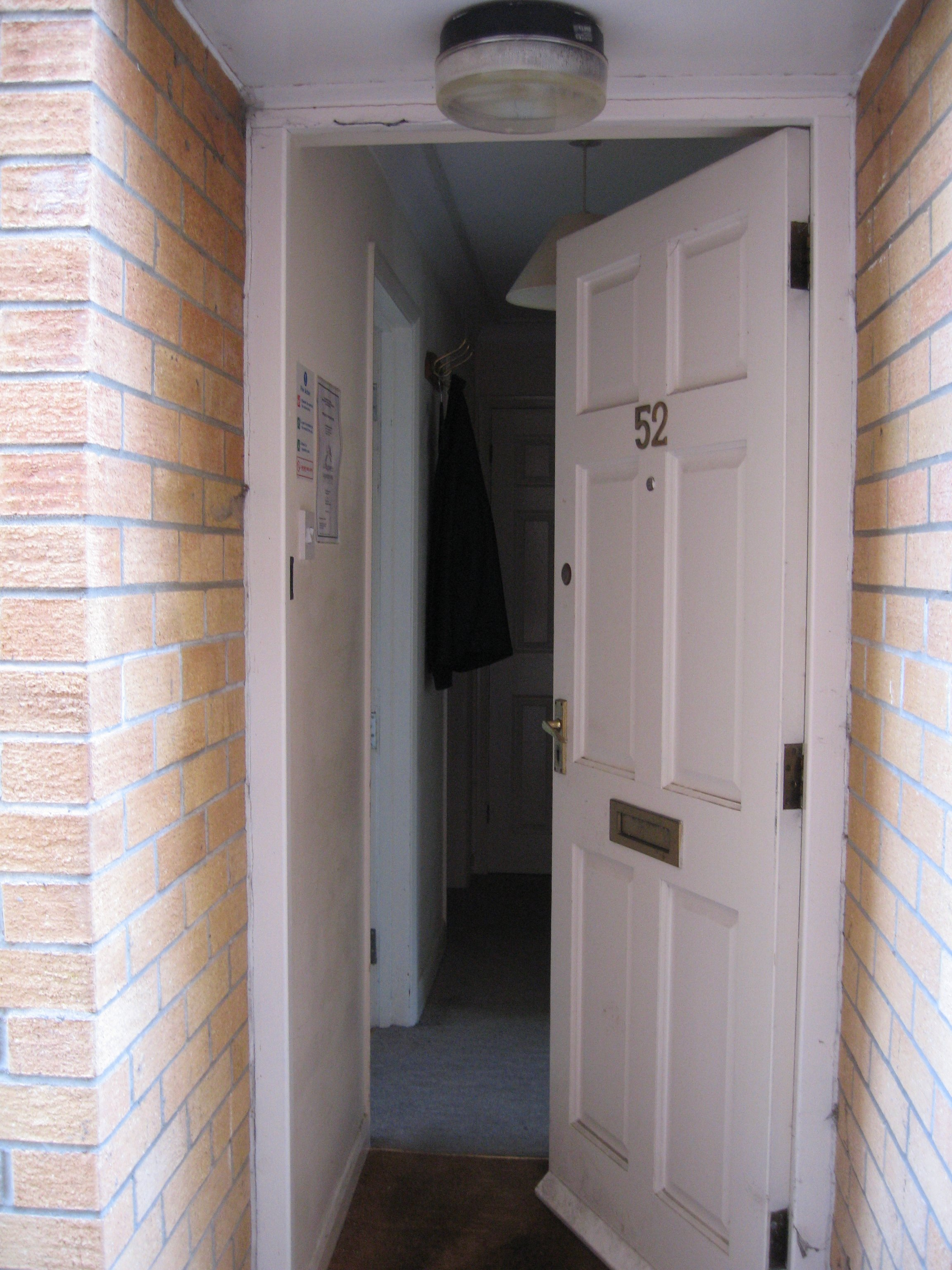 Door numbered 52